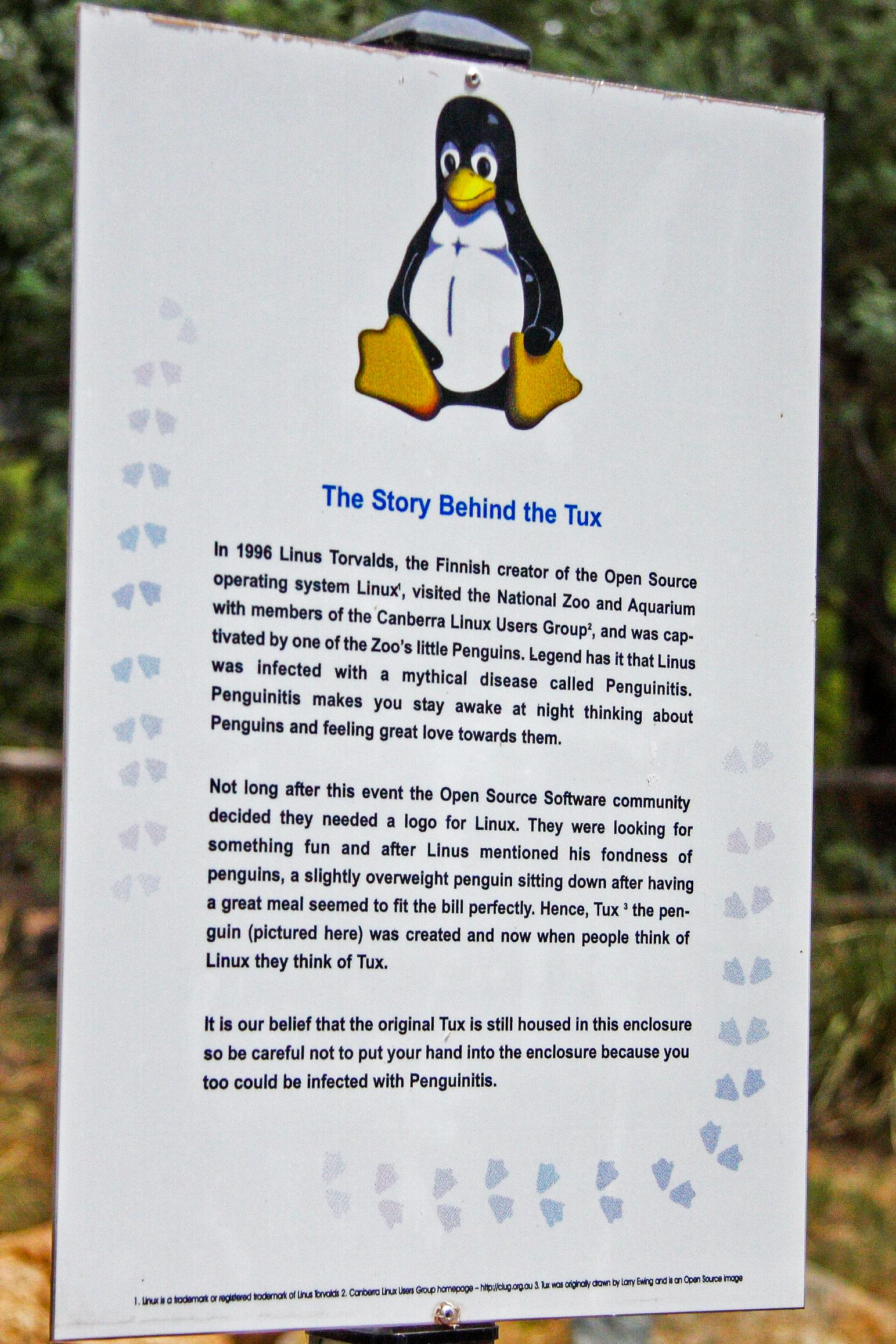 The story Behind Tux